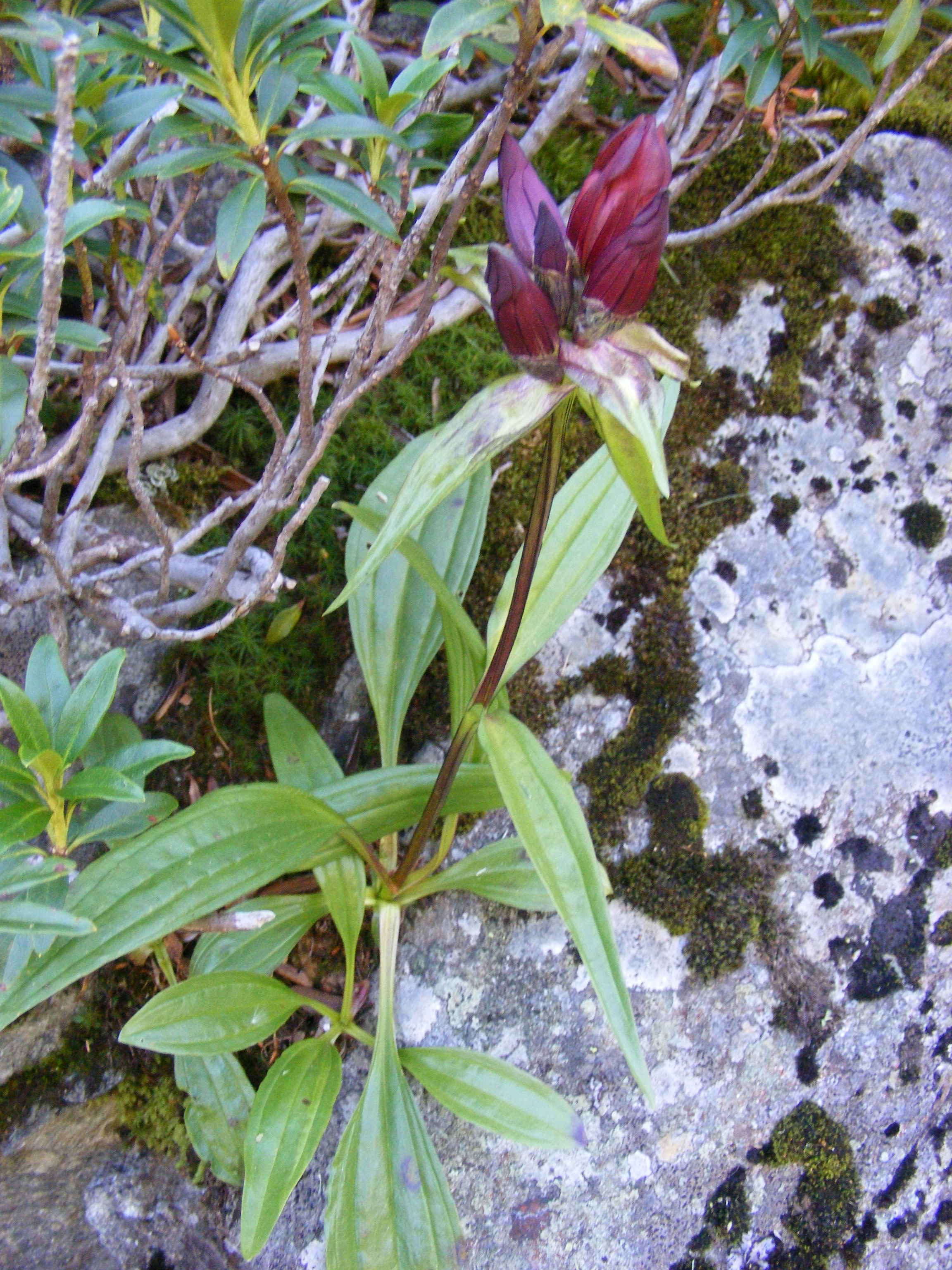 This photo shows gentiana purpurea